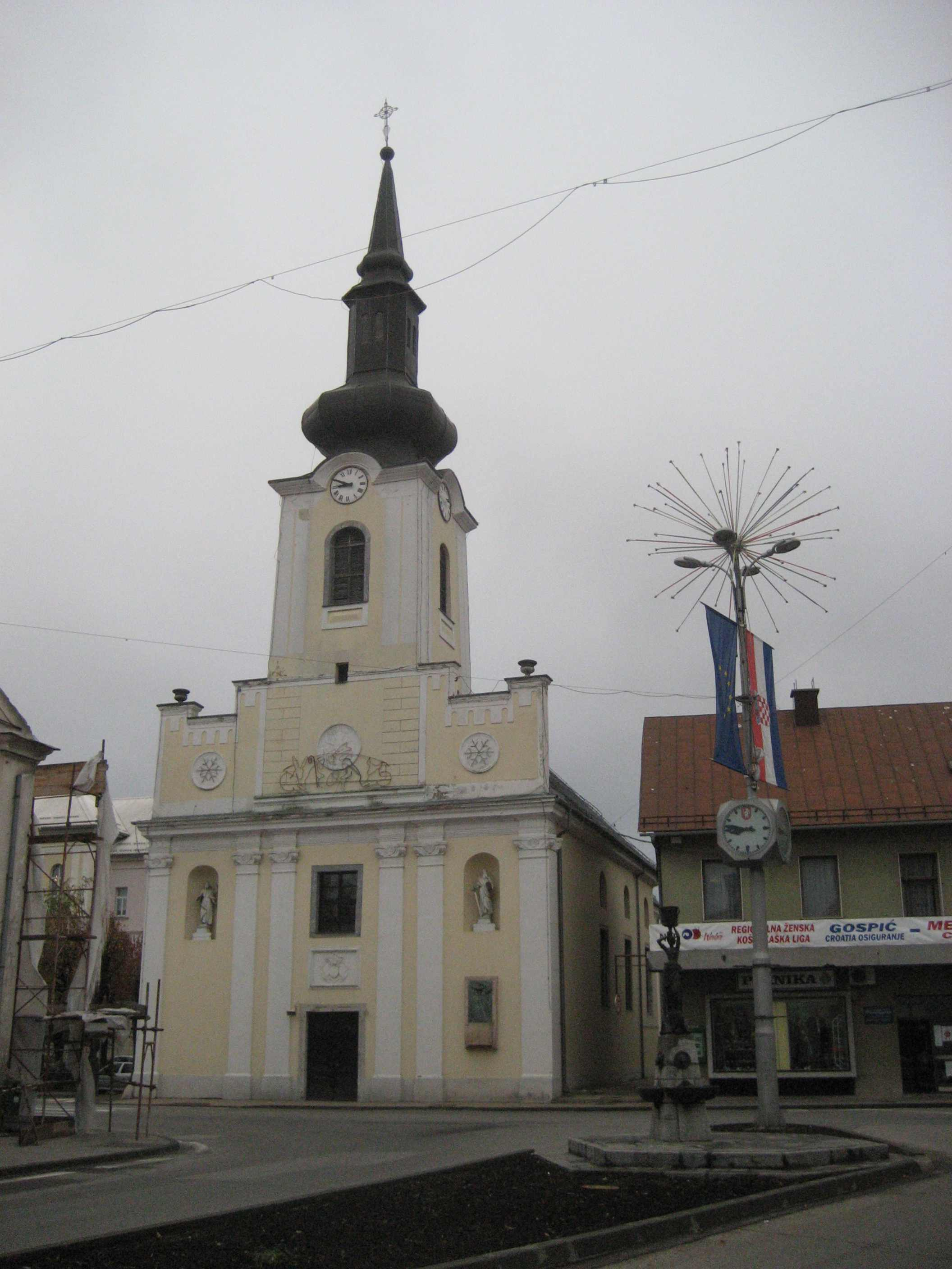 hl. Magdalena church in Gospic, Croatia